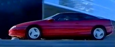 Citroen Activa II Prototype from 1990